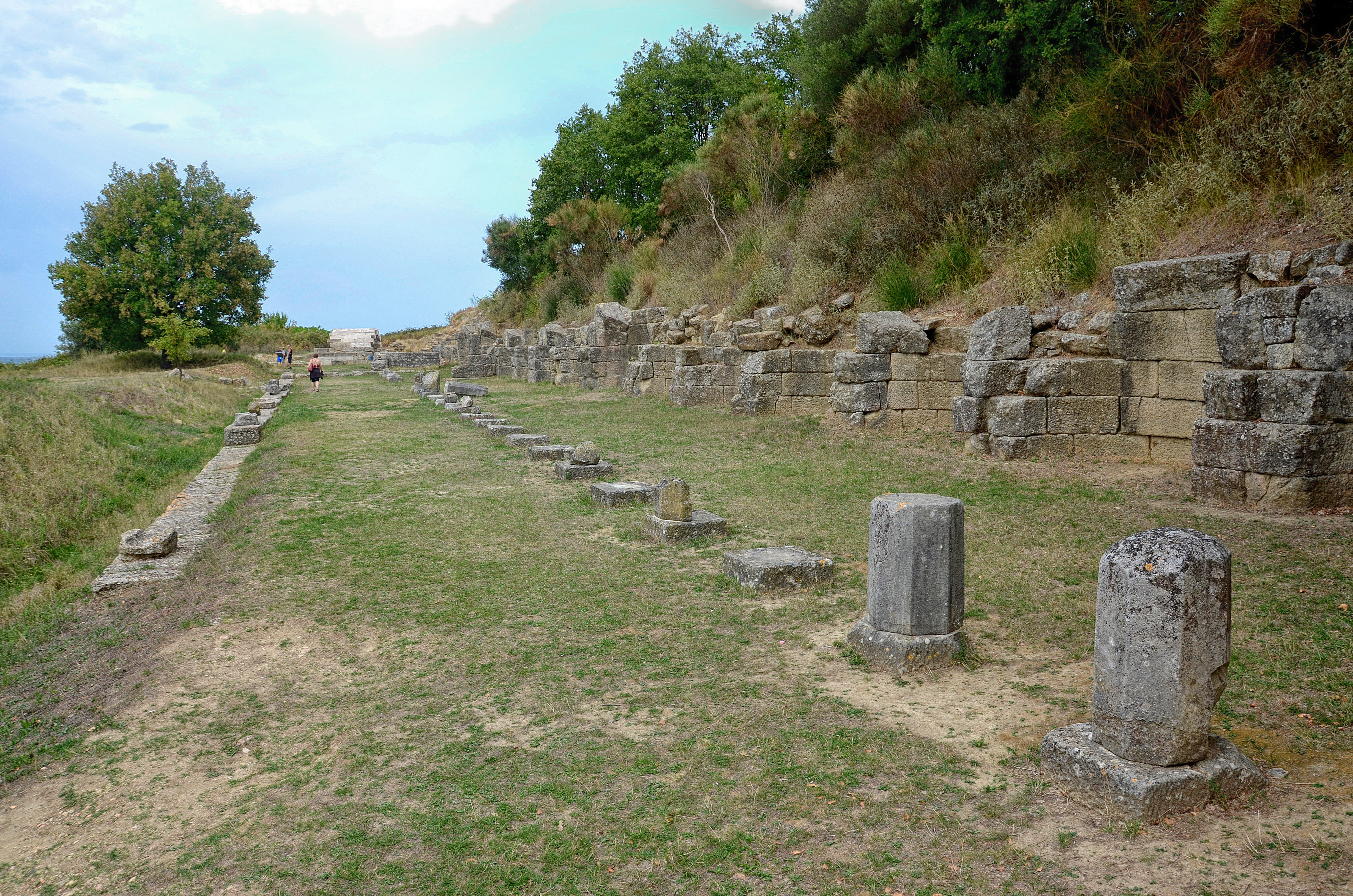 The ruins of the Great Stoa in Apollonia, Albania